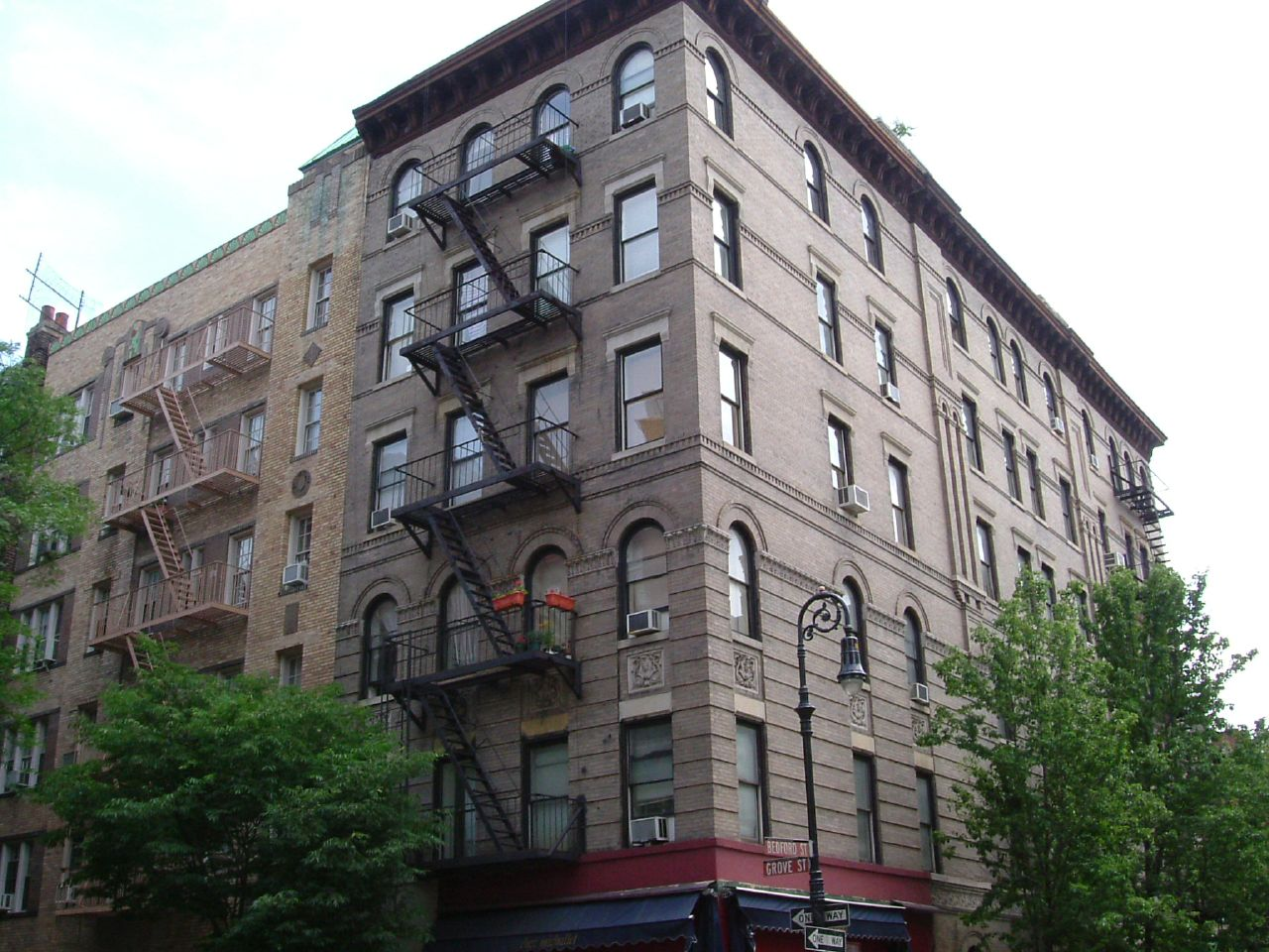 Corner of Bedford and Grove, Manhattan, NY